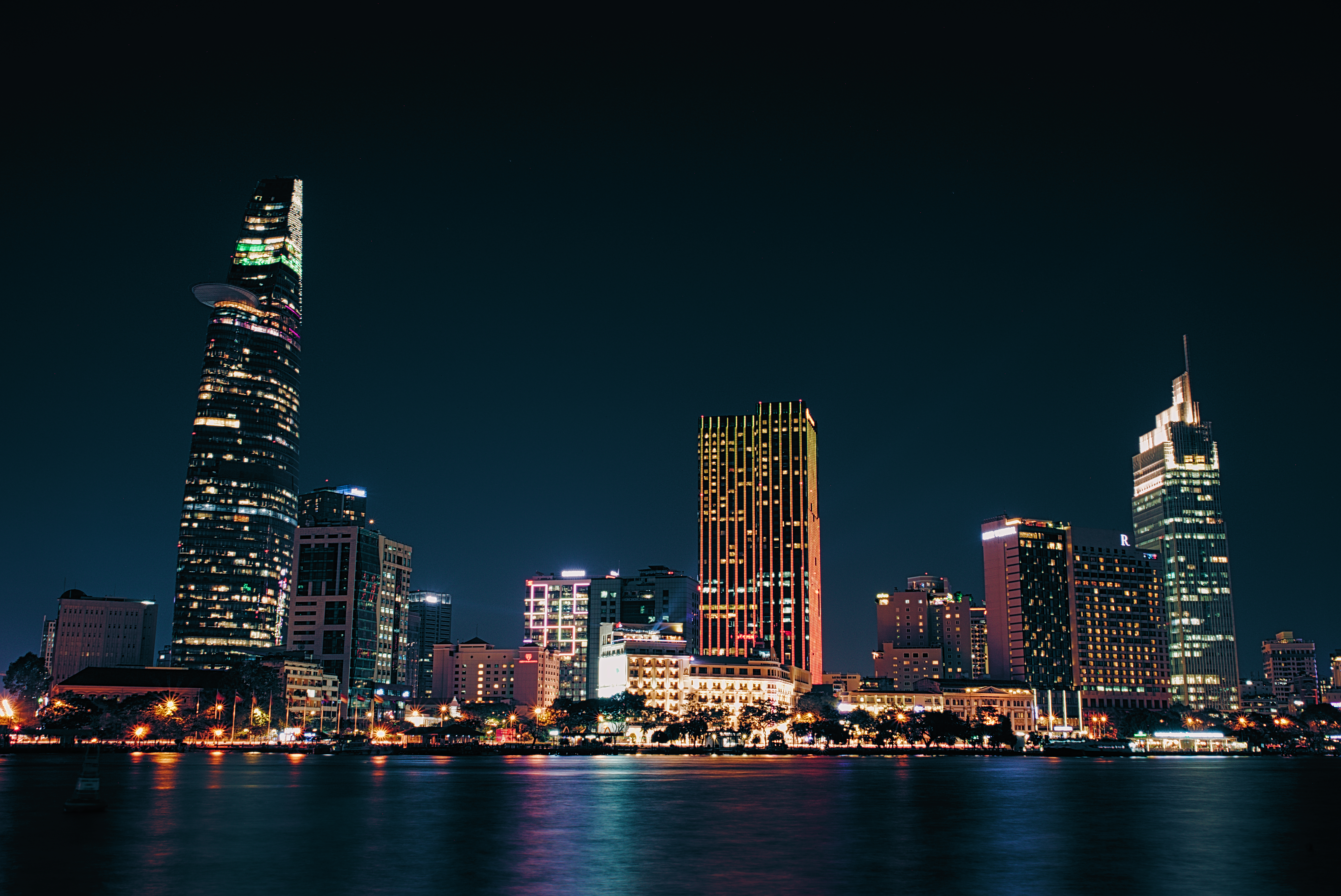 Night view of Ho Chi Minh City skyline.